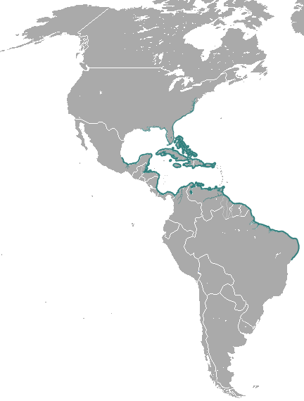 West Indian Manatee (Trichechus manatus) range